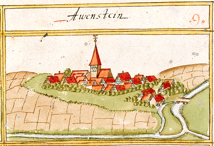 View of Auenstein, Ilsfeld, from the forest register books created by Andreas Kieser